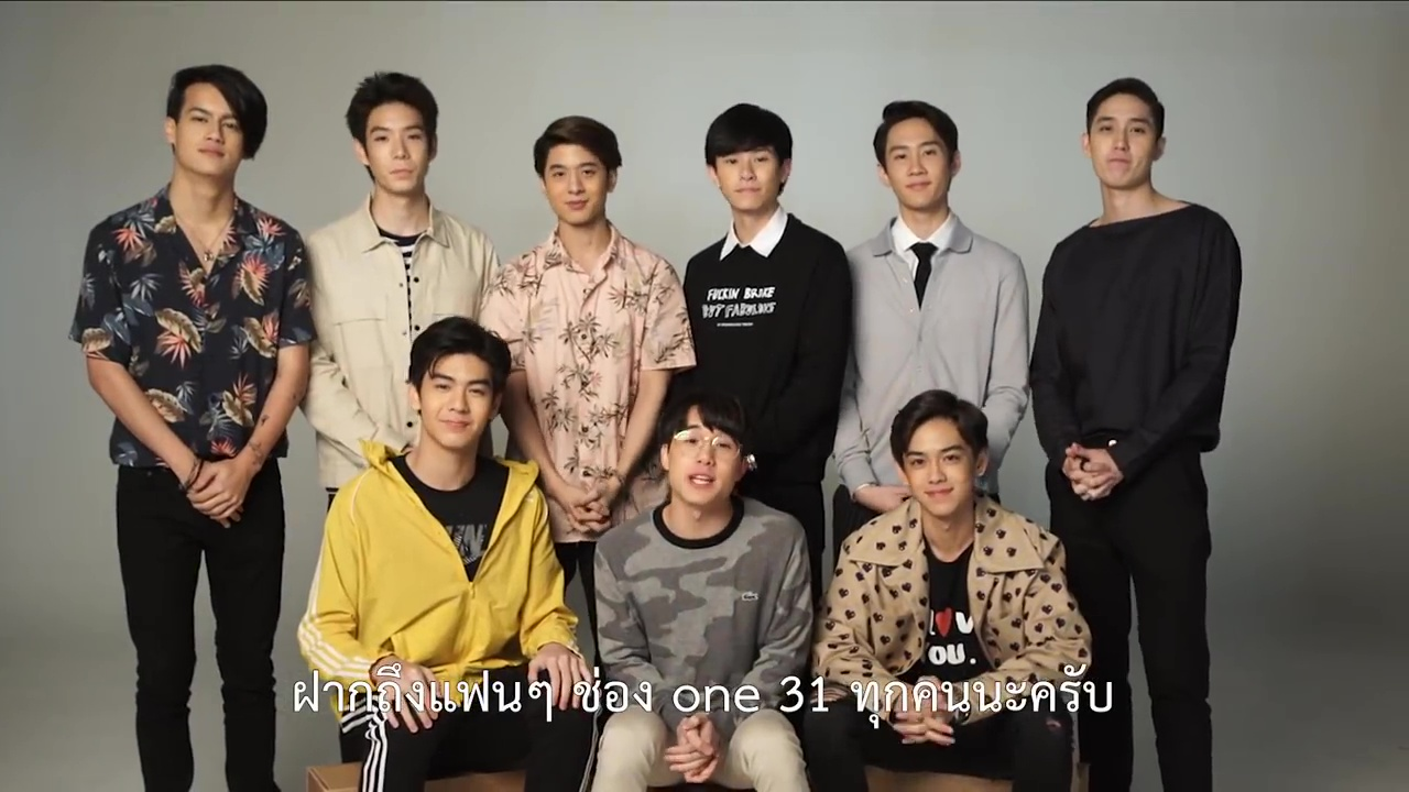 Members of the Thai idol group Nine by Nine from a promotional video for In Family We Trust